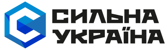 Strong Ukraine